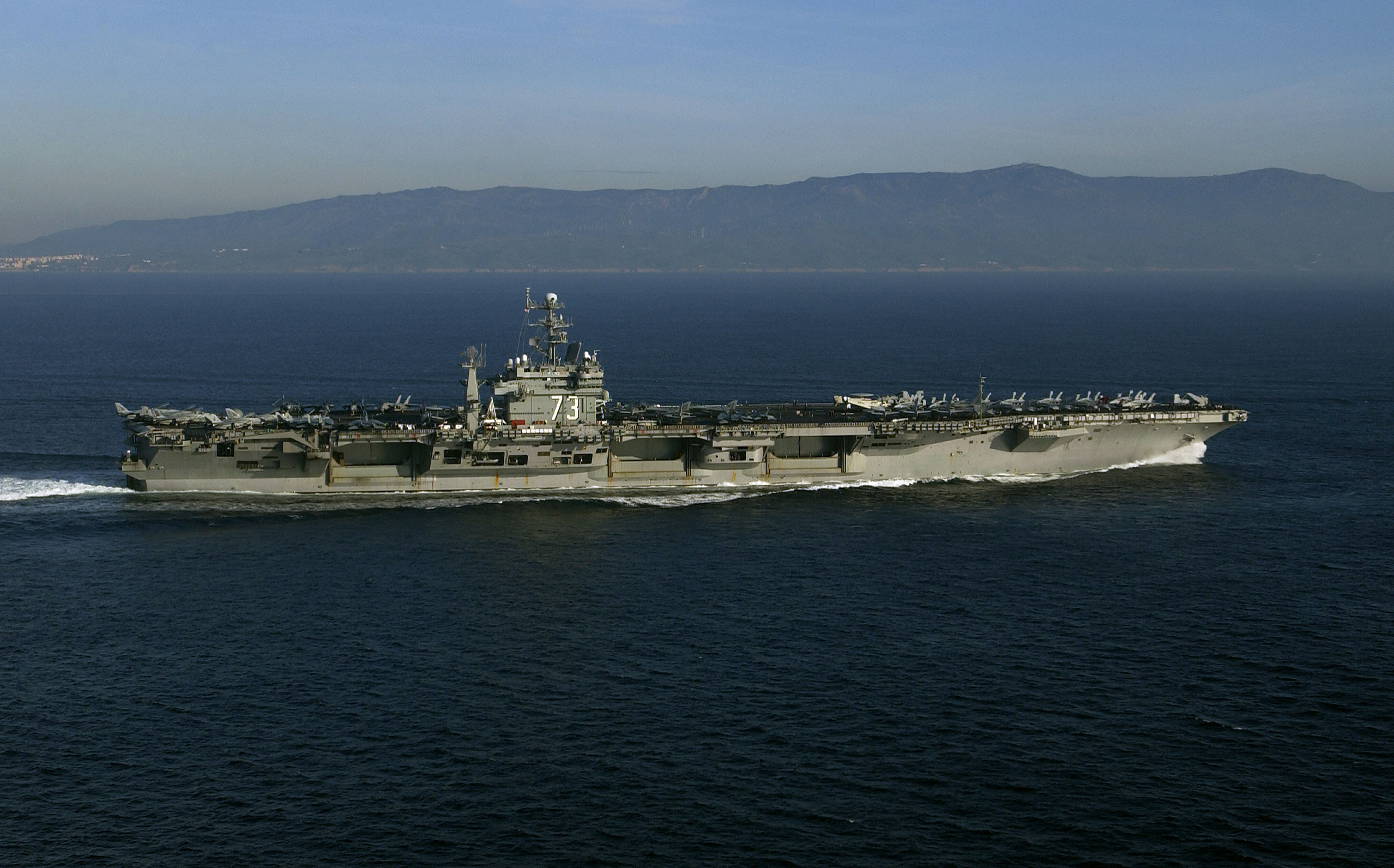 Mediterranean Sea (Feb. 1, 2004) – The nuclear powered aircraft carrier USS George Washington (CVN 73) and the Air Wing of Carrier Air Wing Seven (CVW-7) transit the Strait of Gibraltar into the Mediterranean. The Norfolk, Va. based aircraft carrier is in the Mediterranean on a scheduled deployment. U.S. Navy photo by Photographer’s Mate 1st Class Brien Aho. (RELEASED)